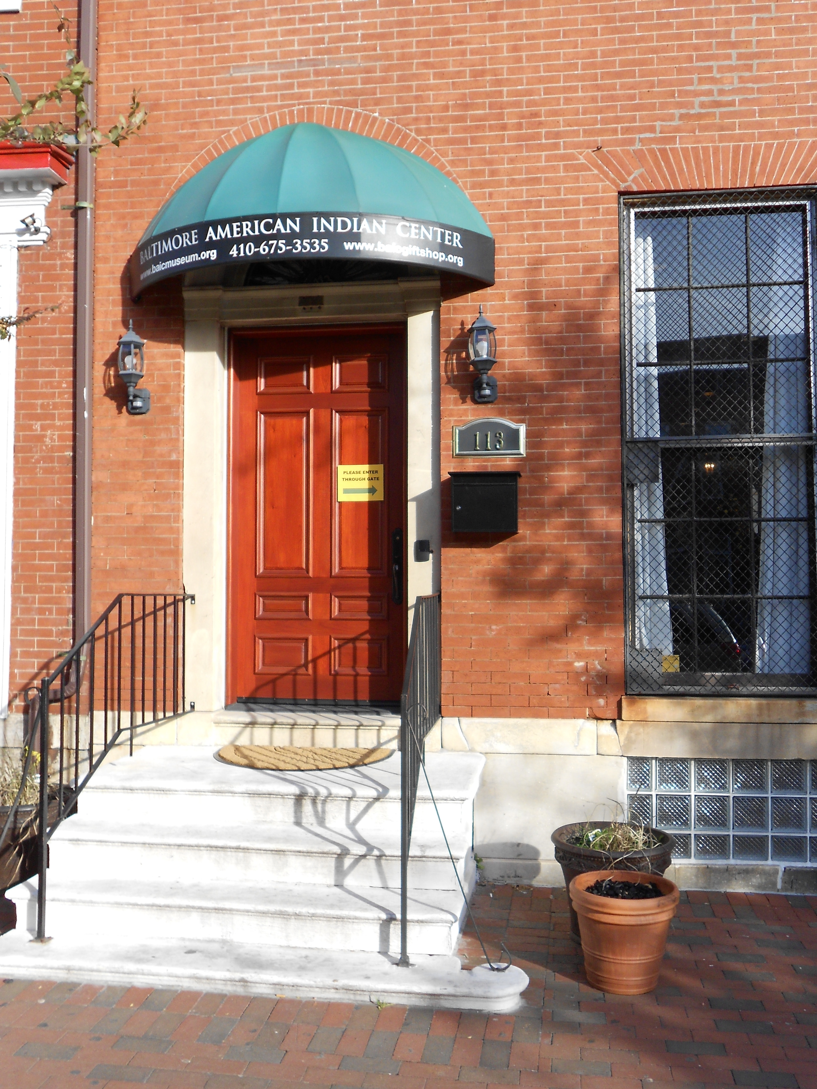 Front door of the Baltimore American Indian Center